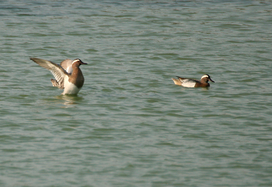 Garganey Anas querquedula at Uppalapadu, Andhra Pradesh, India.